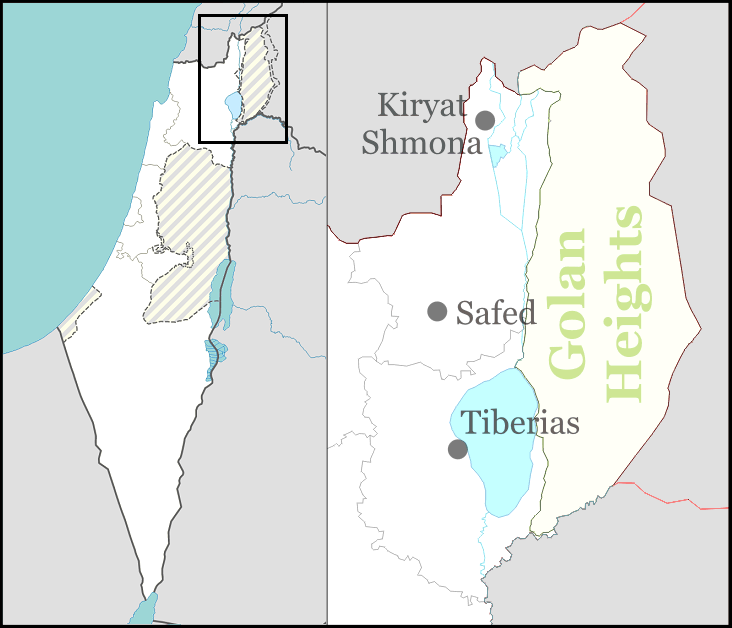 Northeastern Israel and the Golan Heights for location maps.